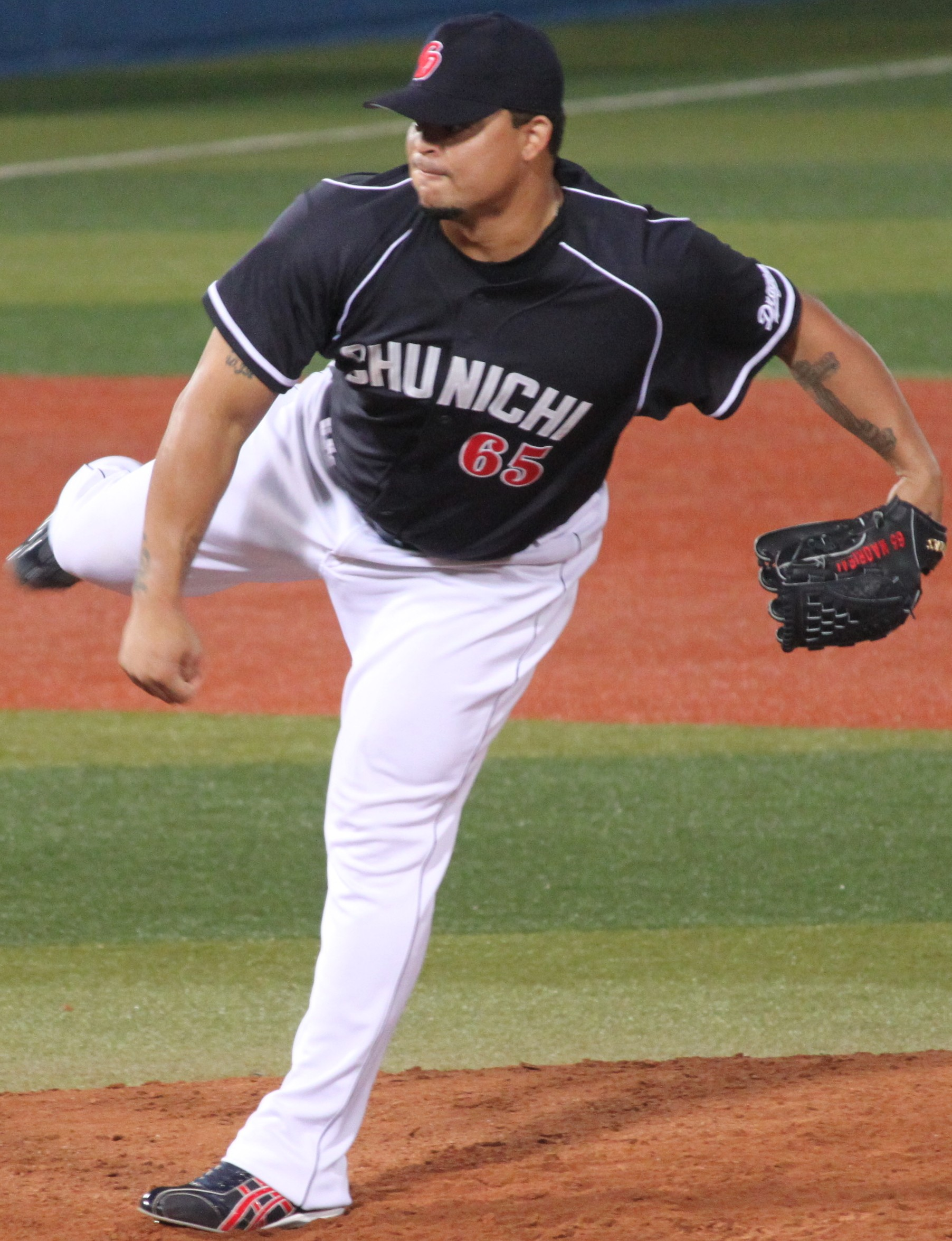 Warner Madrigal, pitcher of the Chunichi Dragons, at Yokohama Stadium.